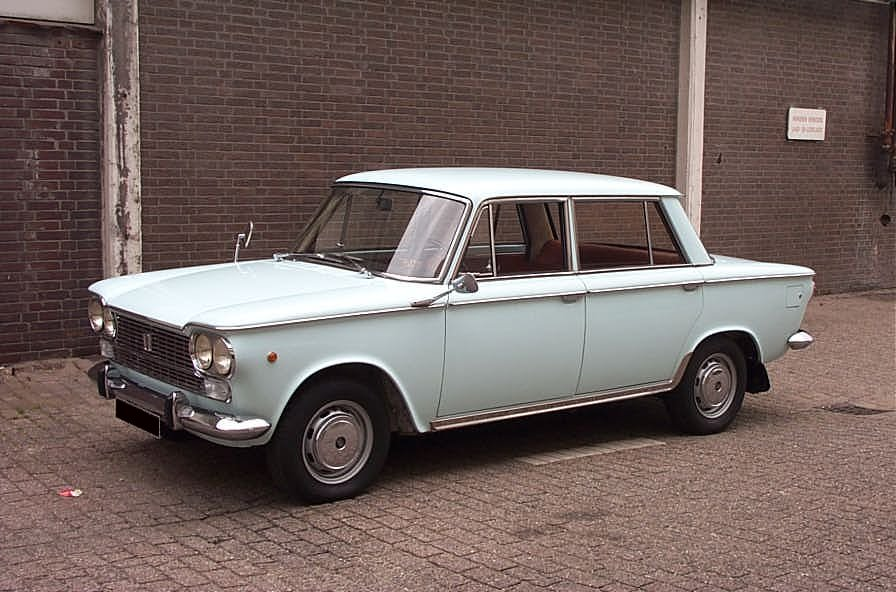 1966 Fiat 1500 saloon, Alice Blue, interior in copper fake leather The vehicle was on sale at the Garage de l'Est at the time the image was uploadedOriginal photograph digitally modified using GIMP (removed license plate number)